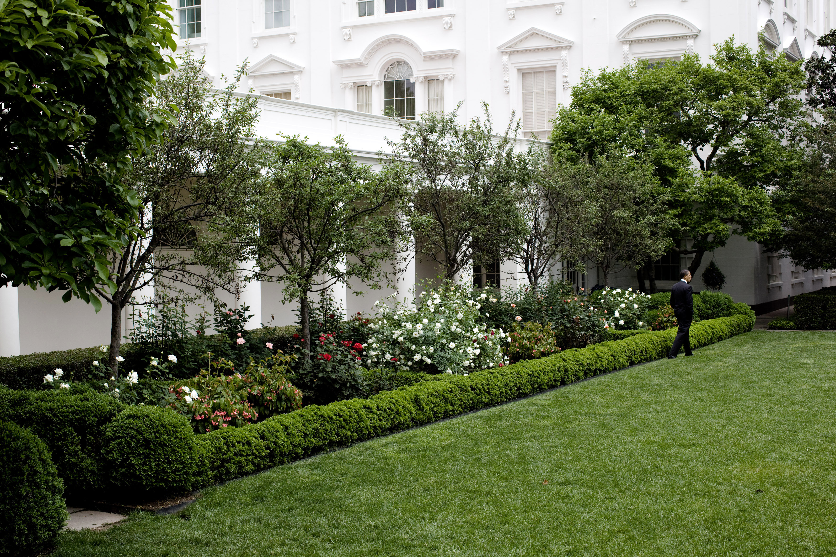 President Barack Obama takes a stroll through the White House Rose Garden, May 15, 2009.